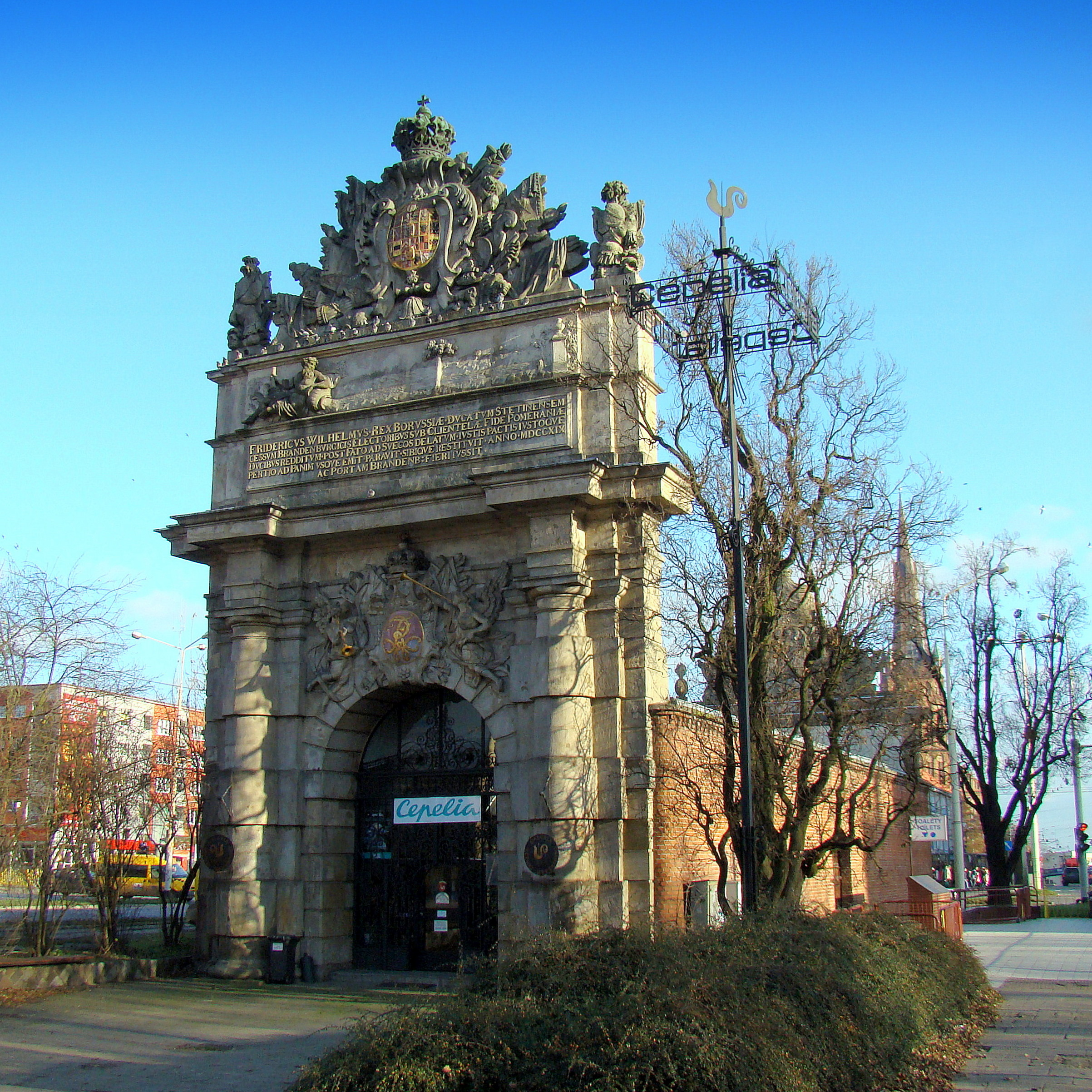 Port Gate (Berlin Gate), Szczecin, Poland